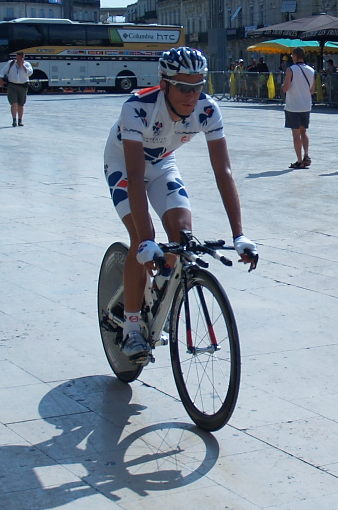 Jérôme Coppel, member of the team Française des jeux.